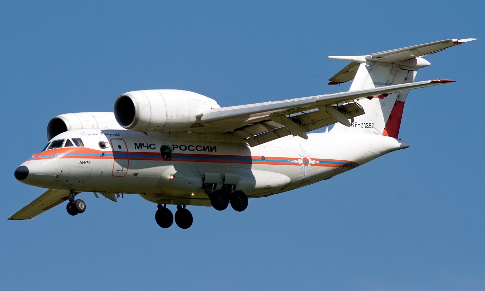 MChS Rossii Antonov An-74 (RF-31350) on final approach at Ramenskoye Airport